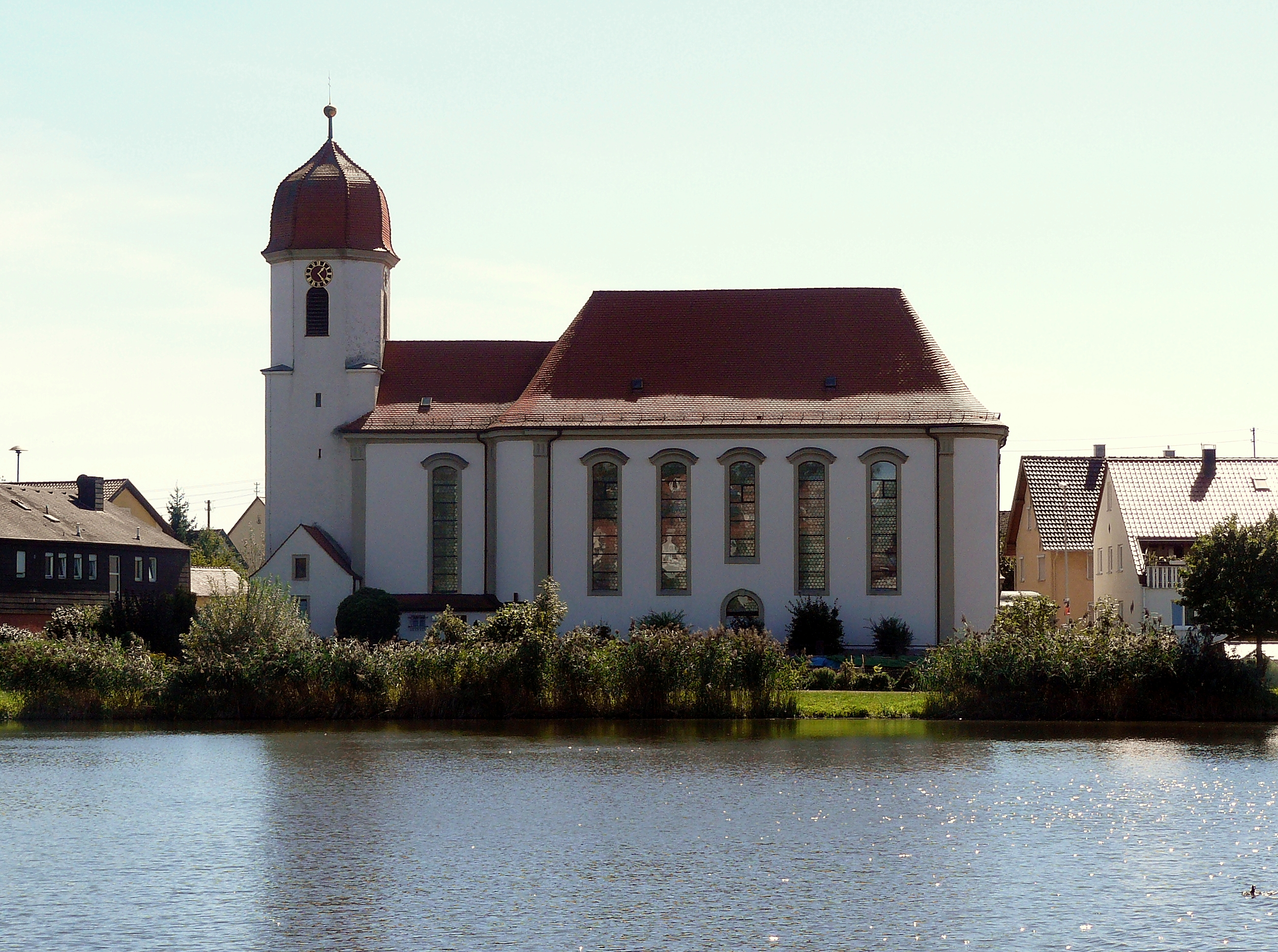 The catholic church in Wört, Germany.